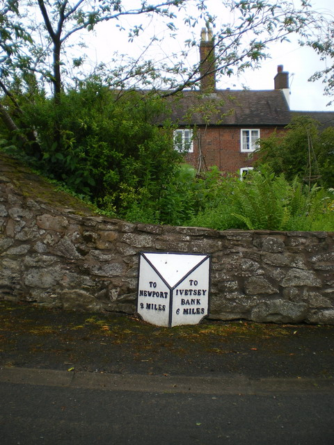 The Pave Lane milestone detail A cast iron milestone beside the old A41.